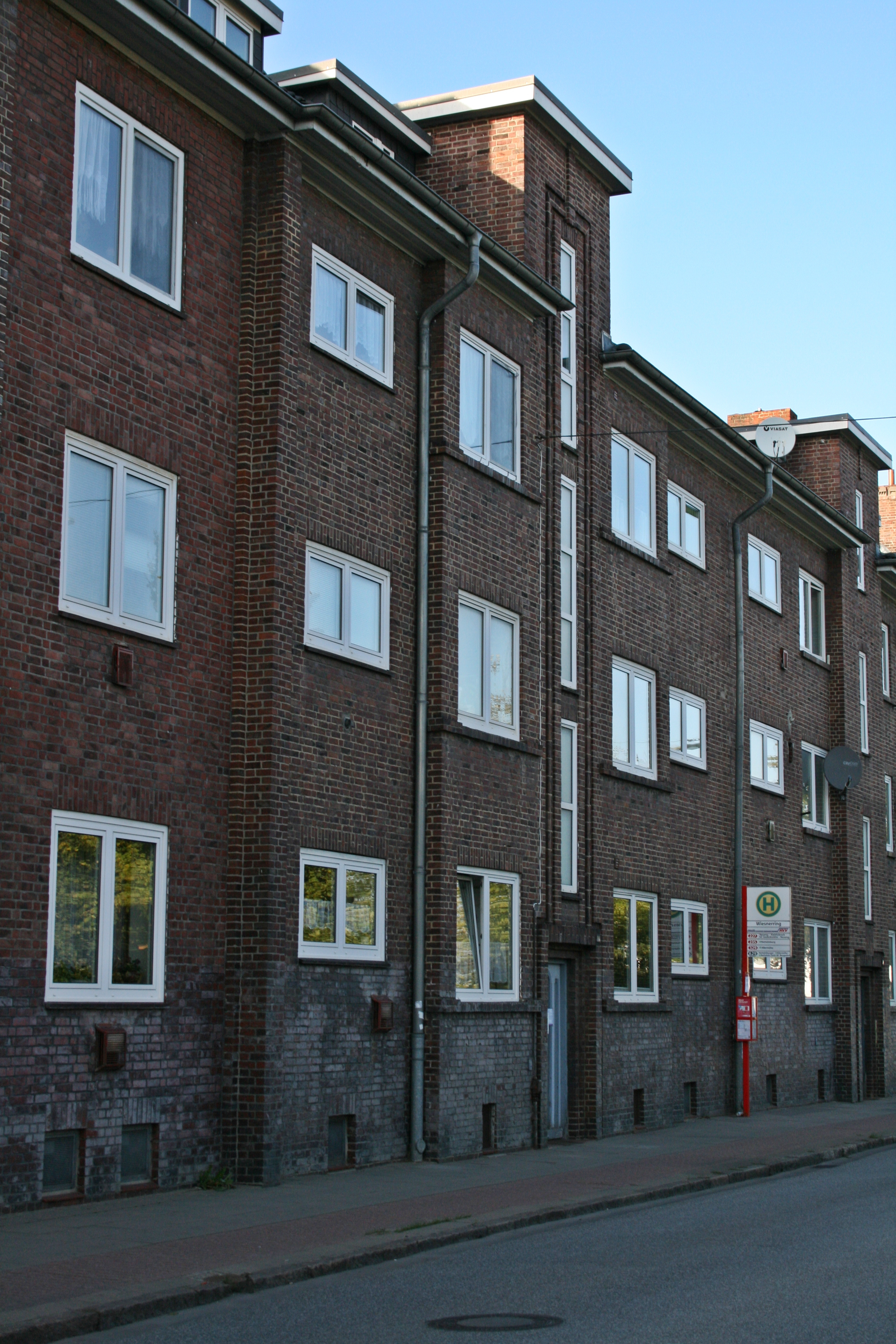 The building Weidenbaumsweg 116 in Hamburg-Bergedorf, with the Stolperstein for Frieda Fiebiger